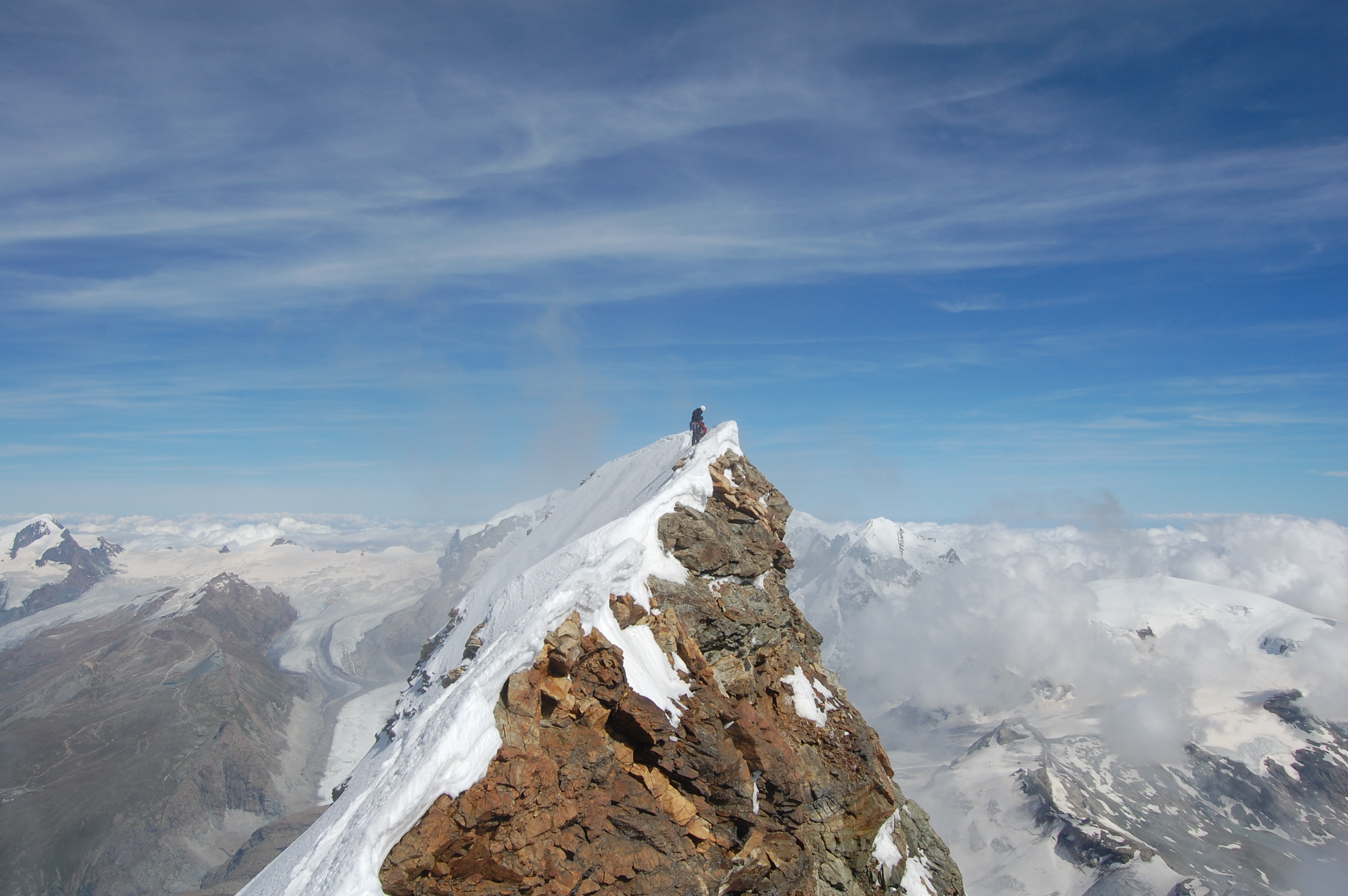 The summit of the Matterhorn